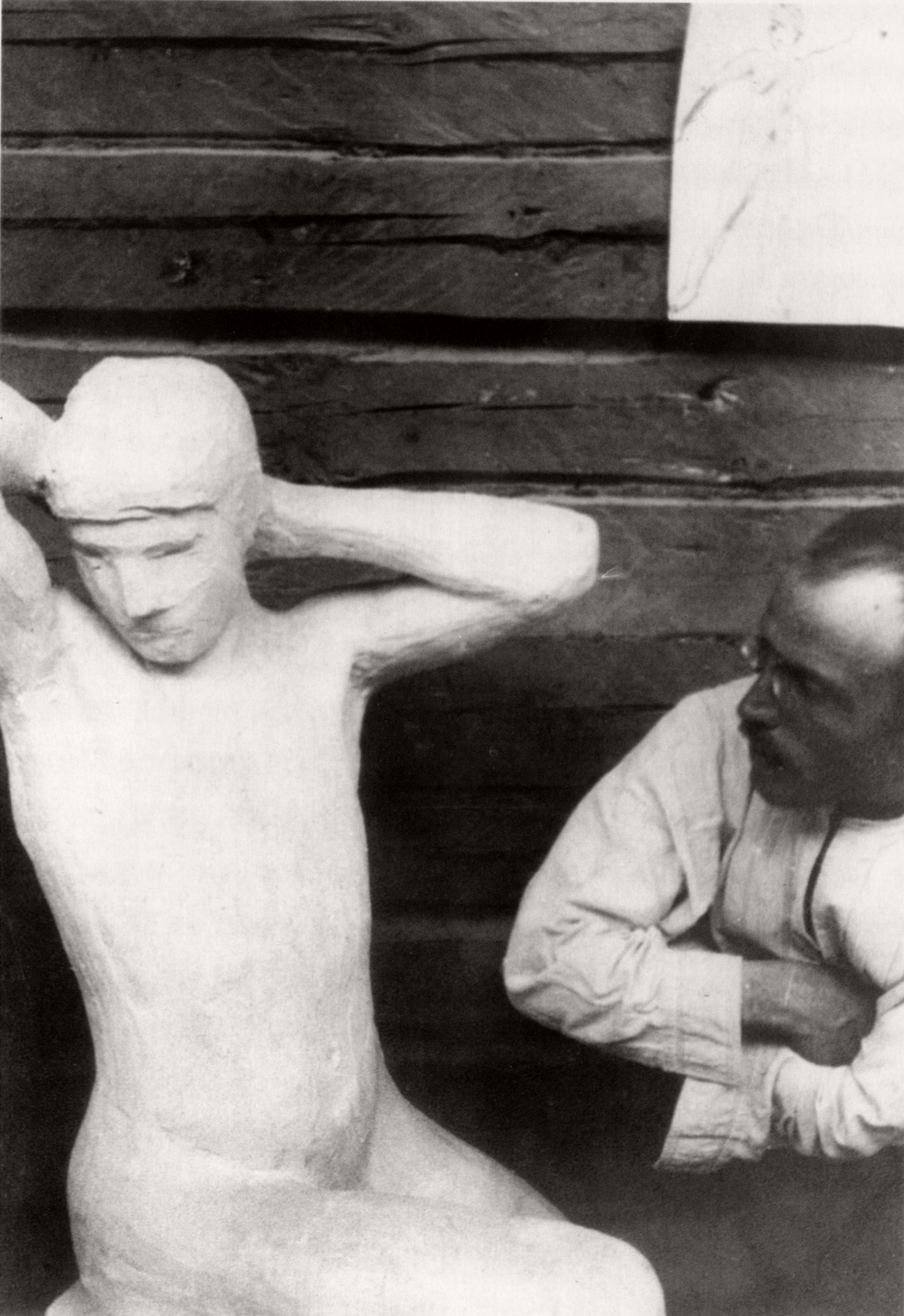 A. T. Matveev. Kimerino. 1910